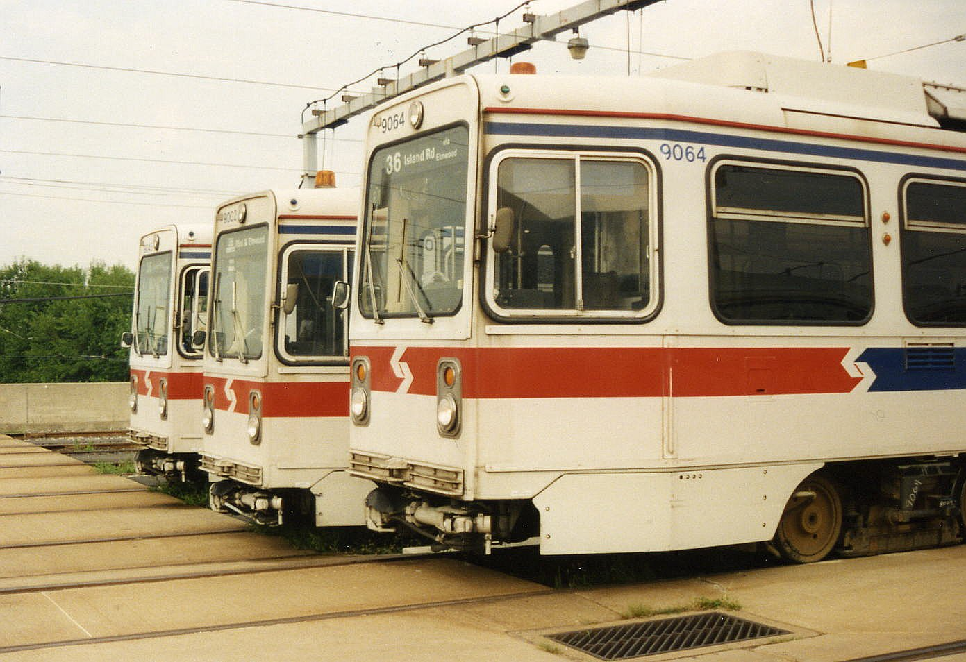 Three SEPTA LRVs are waiting in the yard in 1993.